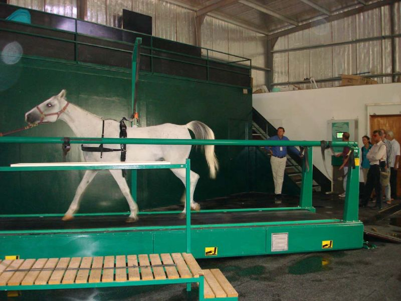 White horse on a treadmill in Qatar.